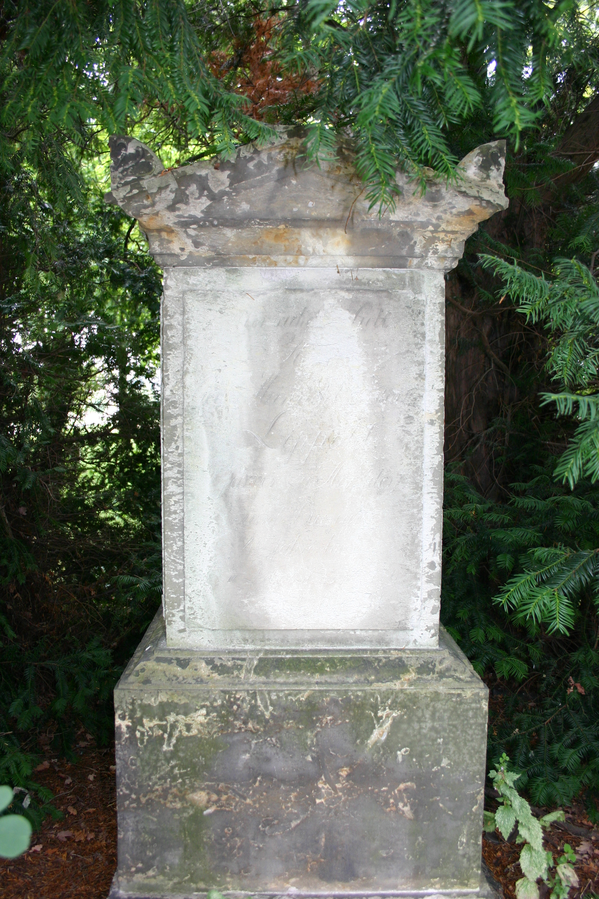 The grave stone of the Christian Georg Heinrich Lippold (1767-1841) in the cemetery in Horstdorf